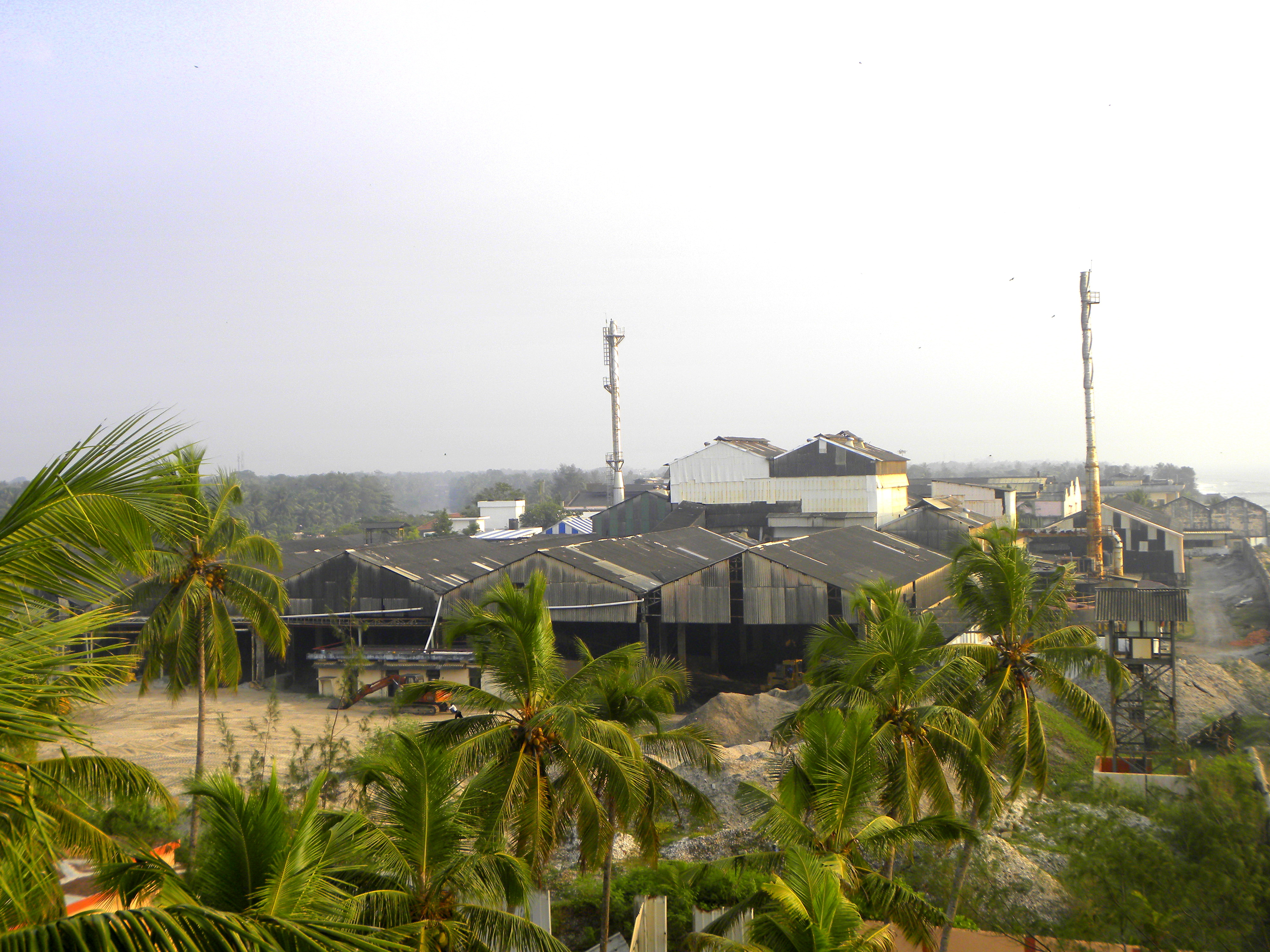 Indian Rare Earths Limited (IREL) is a government-owned corporation in India based in Mumbai. The Corporate Research Centre and major mining dept. are located at Chavara in Kollam Metropolitan Area.